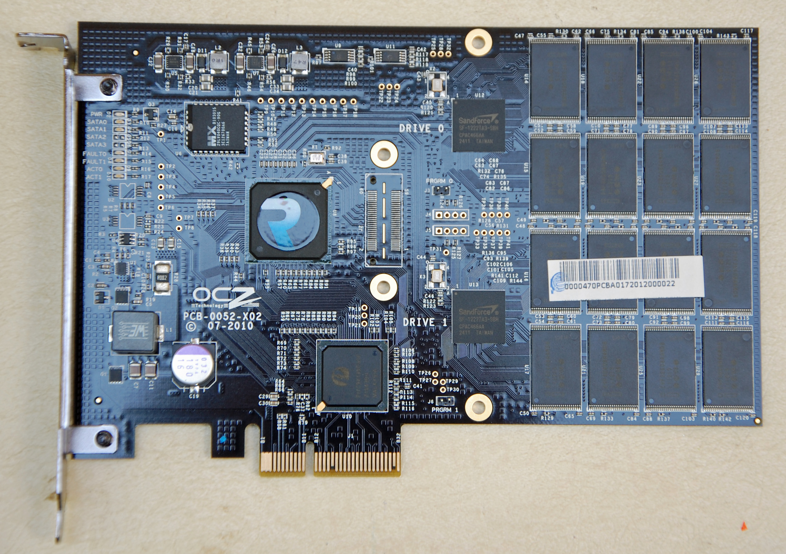 A full-height 4x PCIe card. This is a OCZ RevoDrive SSD.